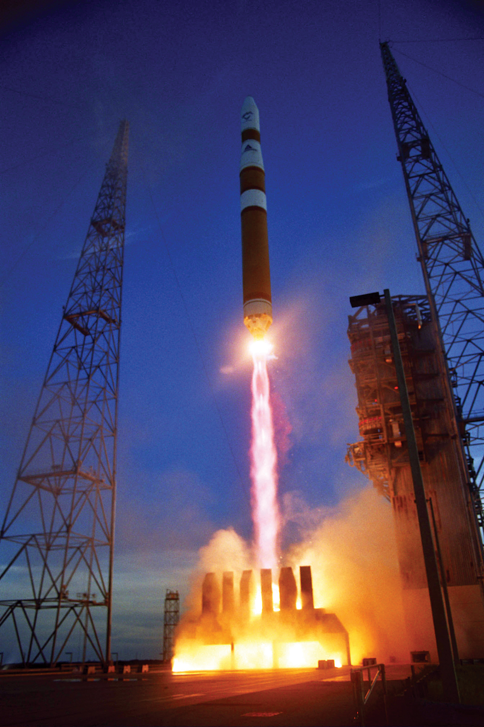 A Delta IV rocket lifts off from here Aug. 29. A Defense Satellite Communication System was placed into orbit by the rocket. It was the last of the system to be launched.